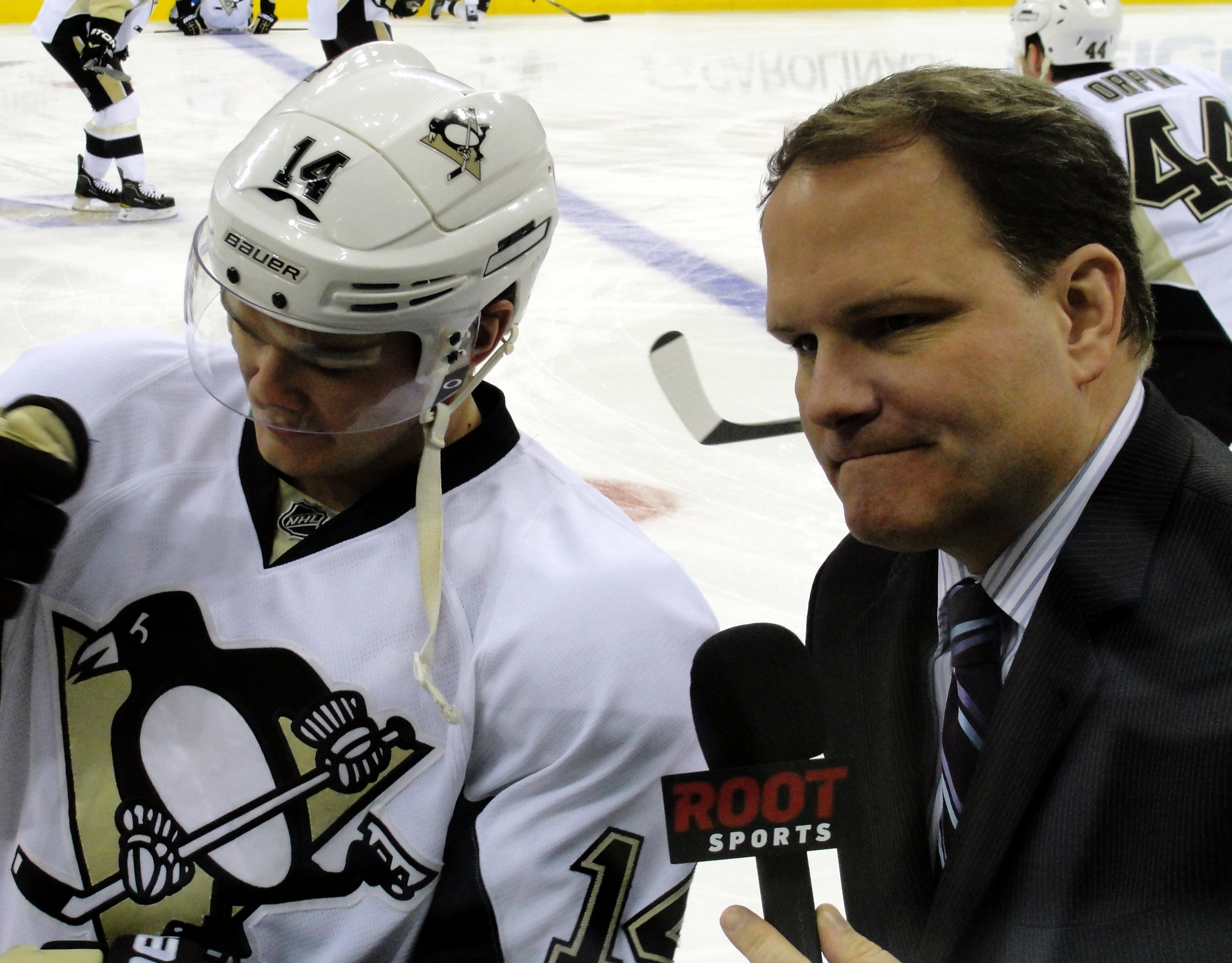 Dan Potash prepares to interview Pittsburgh Penguins F Chris Kunitz prior to a game against the Carolina Hurricanes at RBC Center in Raleigh, NC. December 3, 2011.